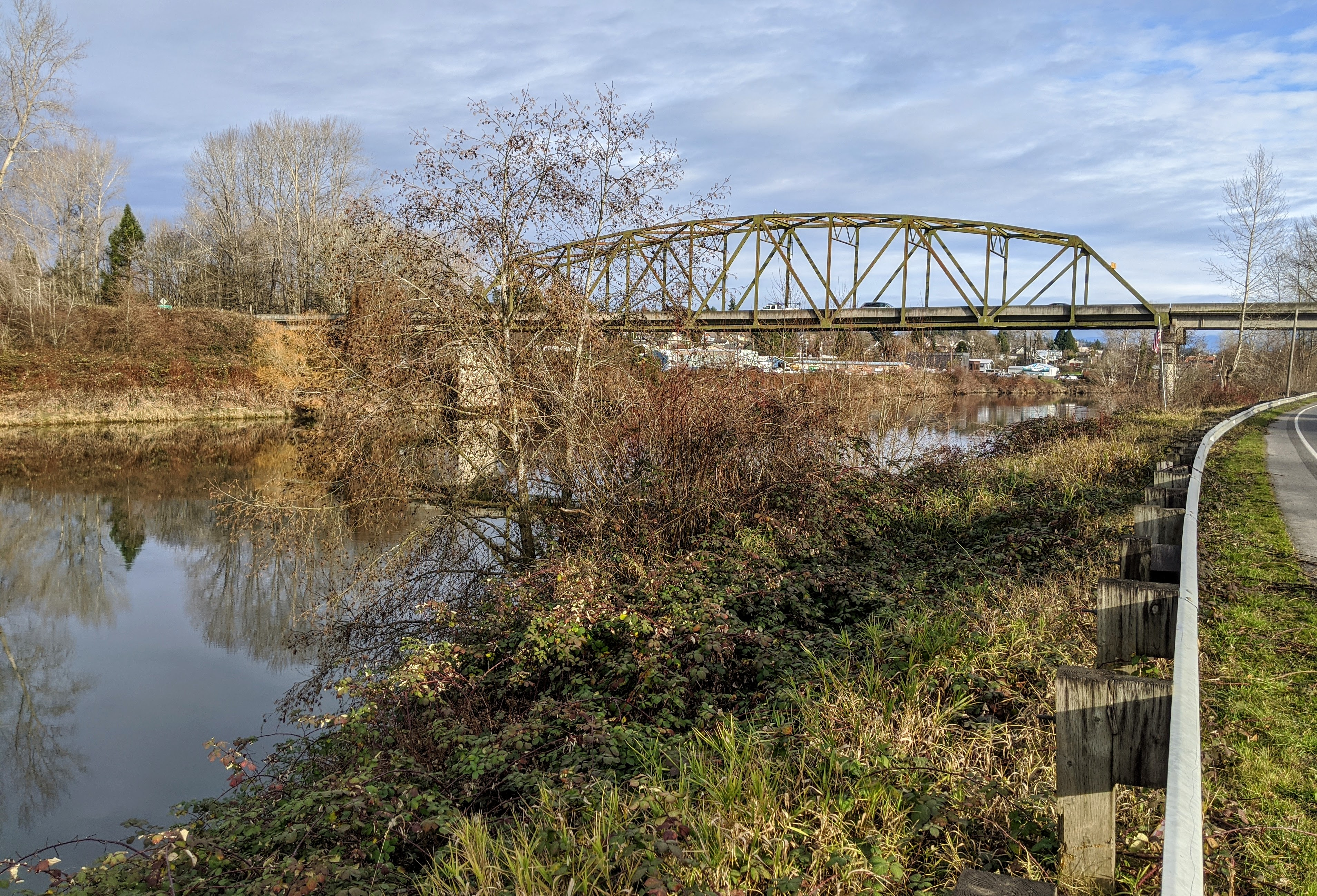 Washington State Highway 9 Bridge over the Snohomish River, looking into downtown Snohomish, Washington